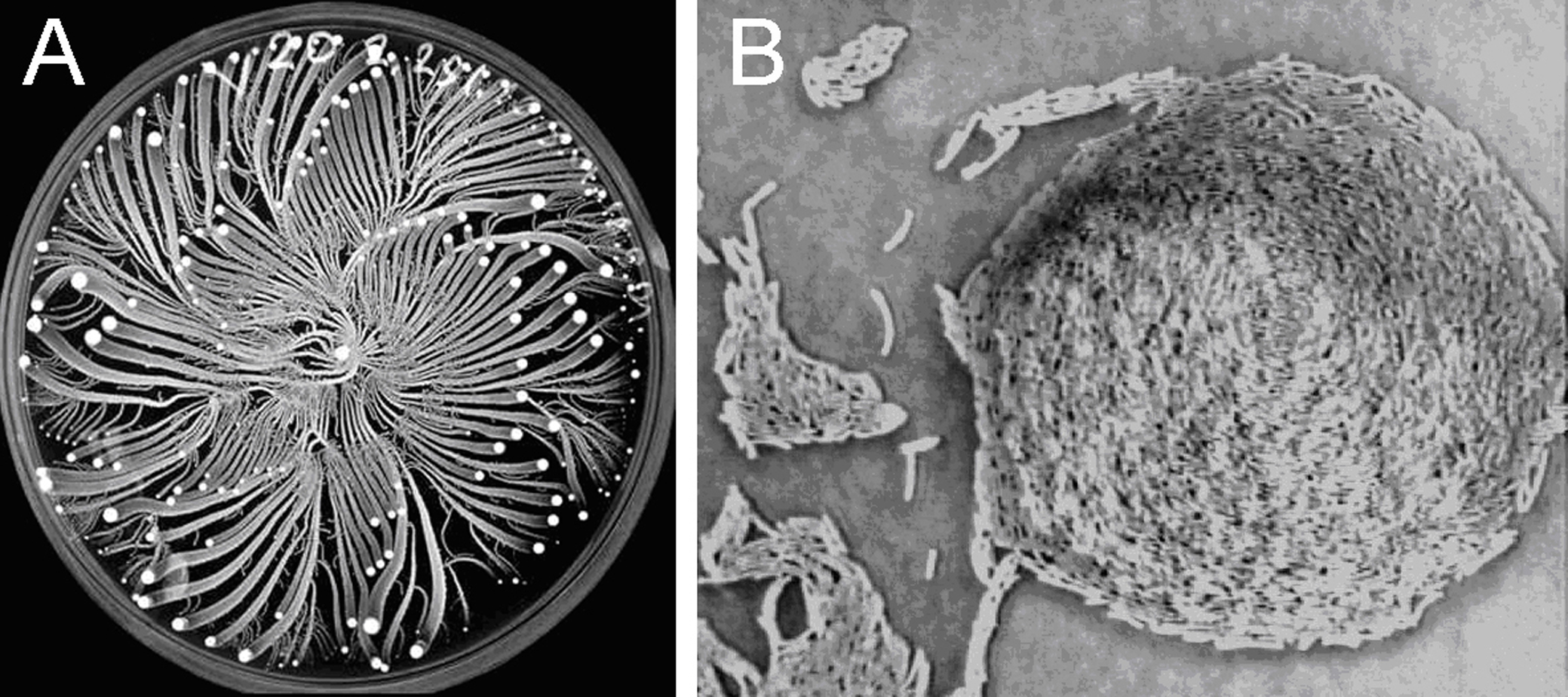 A typical colonial pattern generated by Paenibacillus vortex when grown on 2.25% (w/v) agar with 2% (w/v) peptone in a 9 cm Petri dish. A. Whole colony view. Each vortex (the condensed group of bacteria – the bright dots) is composed of many cells that swarm collectively around their common center at about 10 μm/s. B. An individual vortex – the diameter of the vortex is 75 μm. Both clockwise and anticlockwise rotating vortices are observed, although the majority have the same handedness.